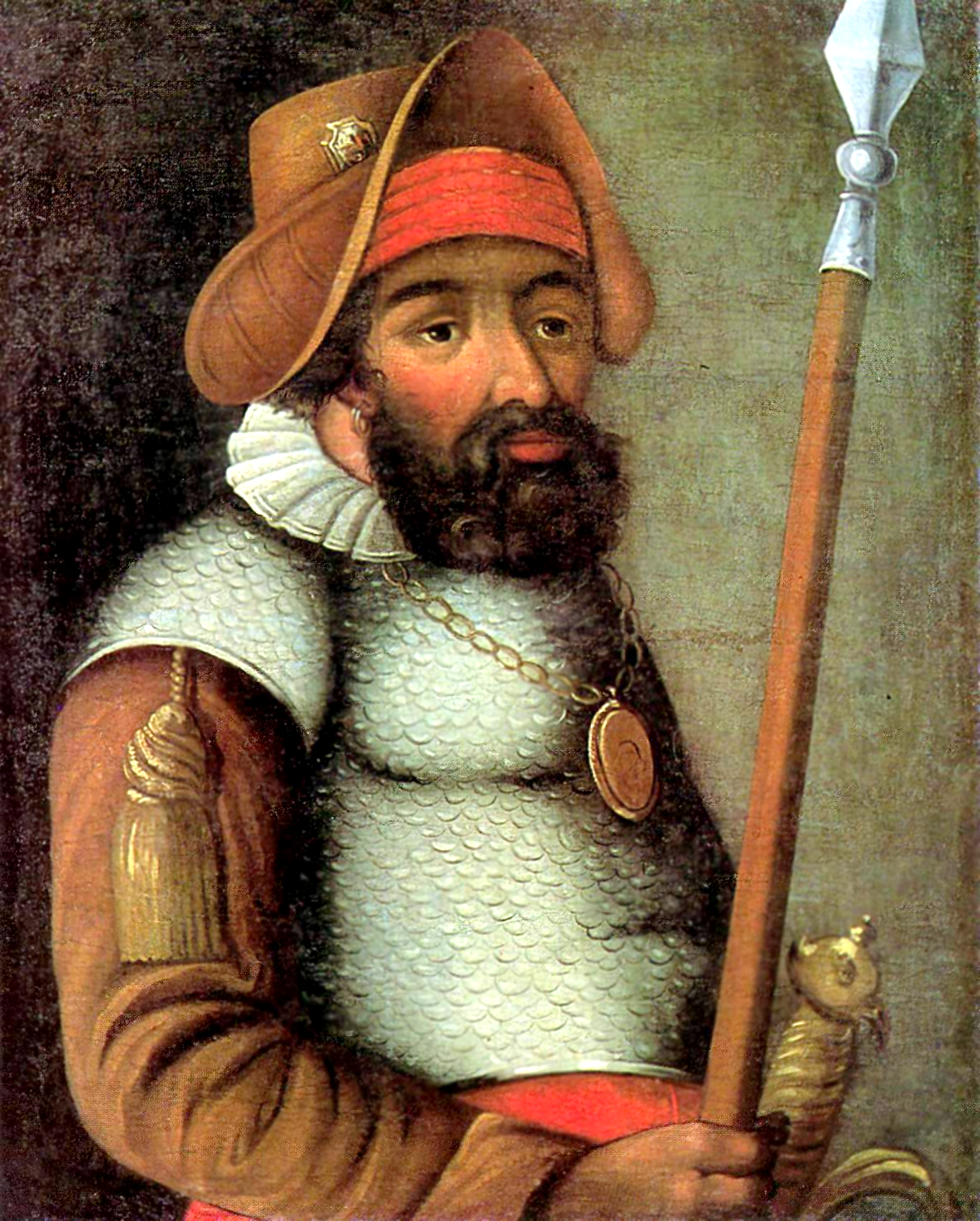 Yermak Timofeevich, conqueror of Siberia.